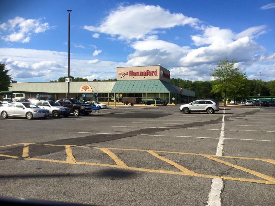 One of five stores purchased from Grand Union in 2001.